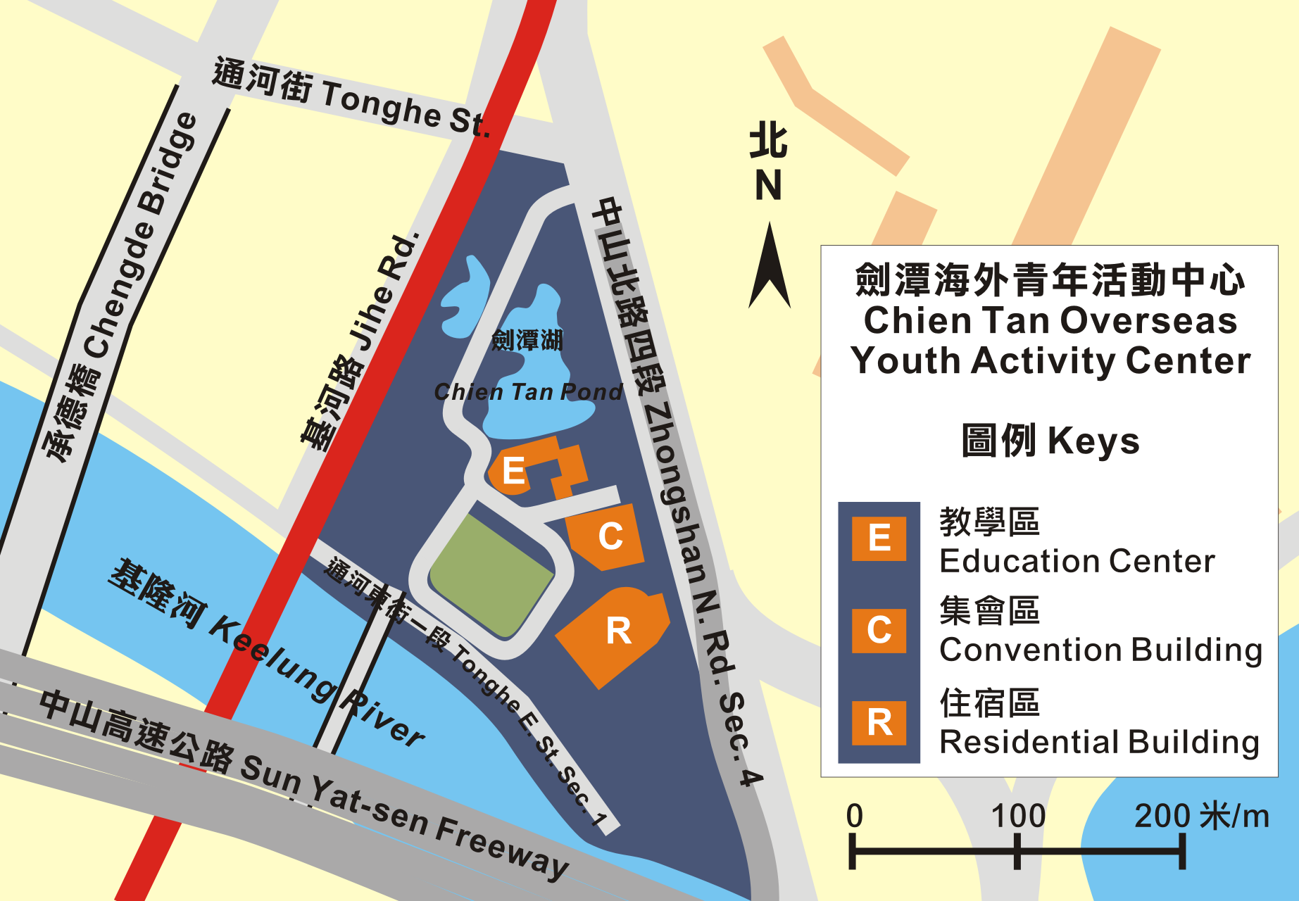 Map of Chien Tan Overseas Youth Activity Center and surrounding areas.